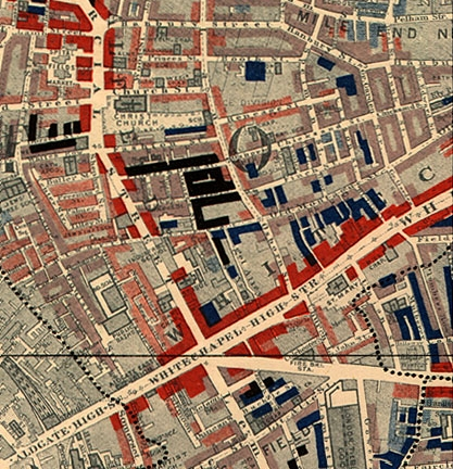 Map of Whitechapel from Charles Booth's Labour and Life of the People. Volume 1: East London (London: Macmillan, 1889). The streets are coloured to represent the economic class of the residents: Yellow ("Upper-middle and Upper classes, Wealthy"), red ("Lower middle class - Well-to-do middle class"), pink ("Fairly comfortable good ordinary earnings"), blue ("Intermittent or casual earnings"), and black ("lowest class...occasional labourers, street sellers, loafers, criminals and semi-criminals")